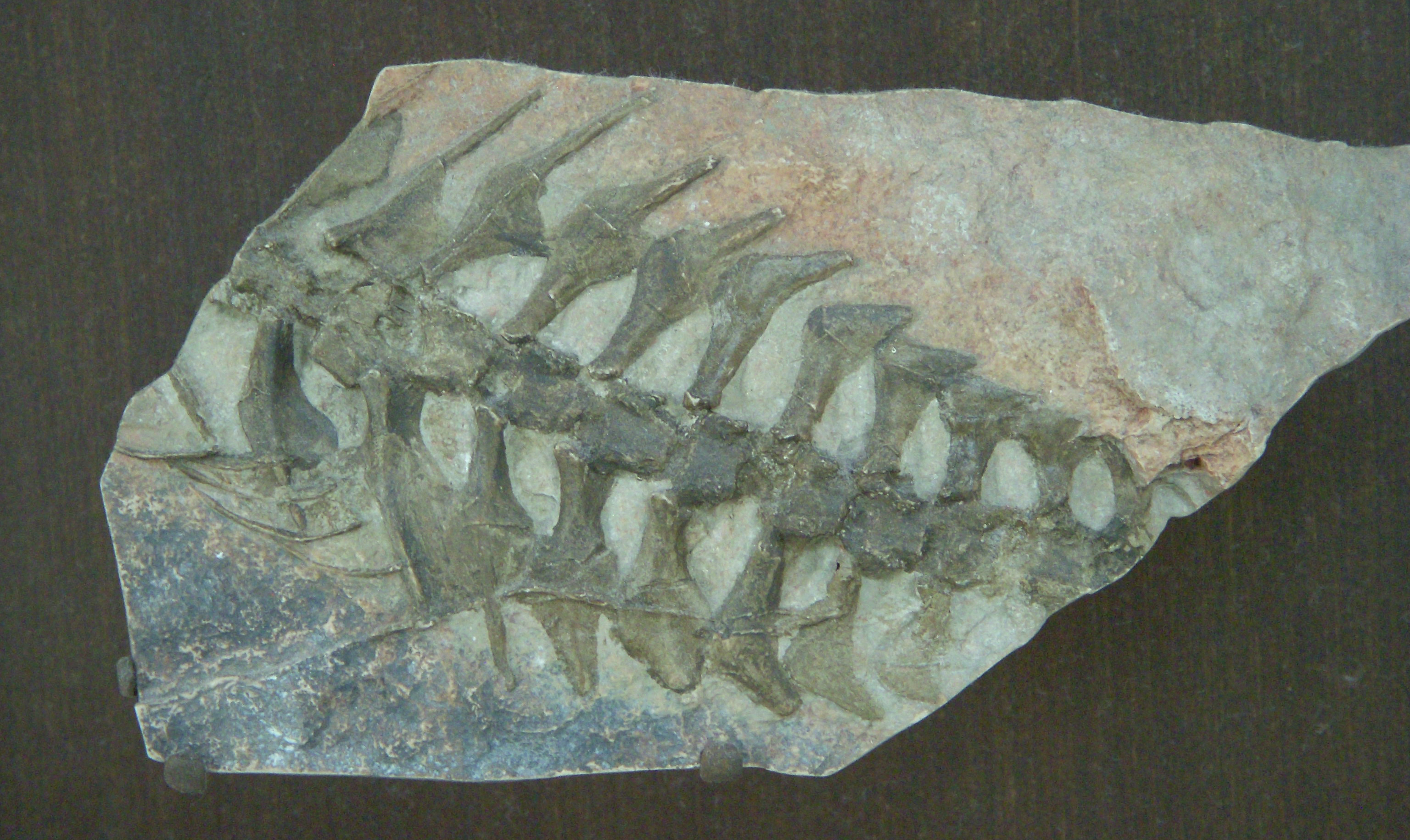 Cast of the vertebrae and ribs of Thrinaxodon liorhinus (specimen AMNH 9516) in the American Museum of Natural History.